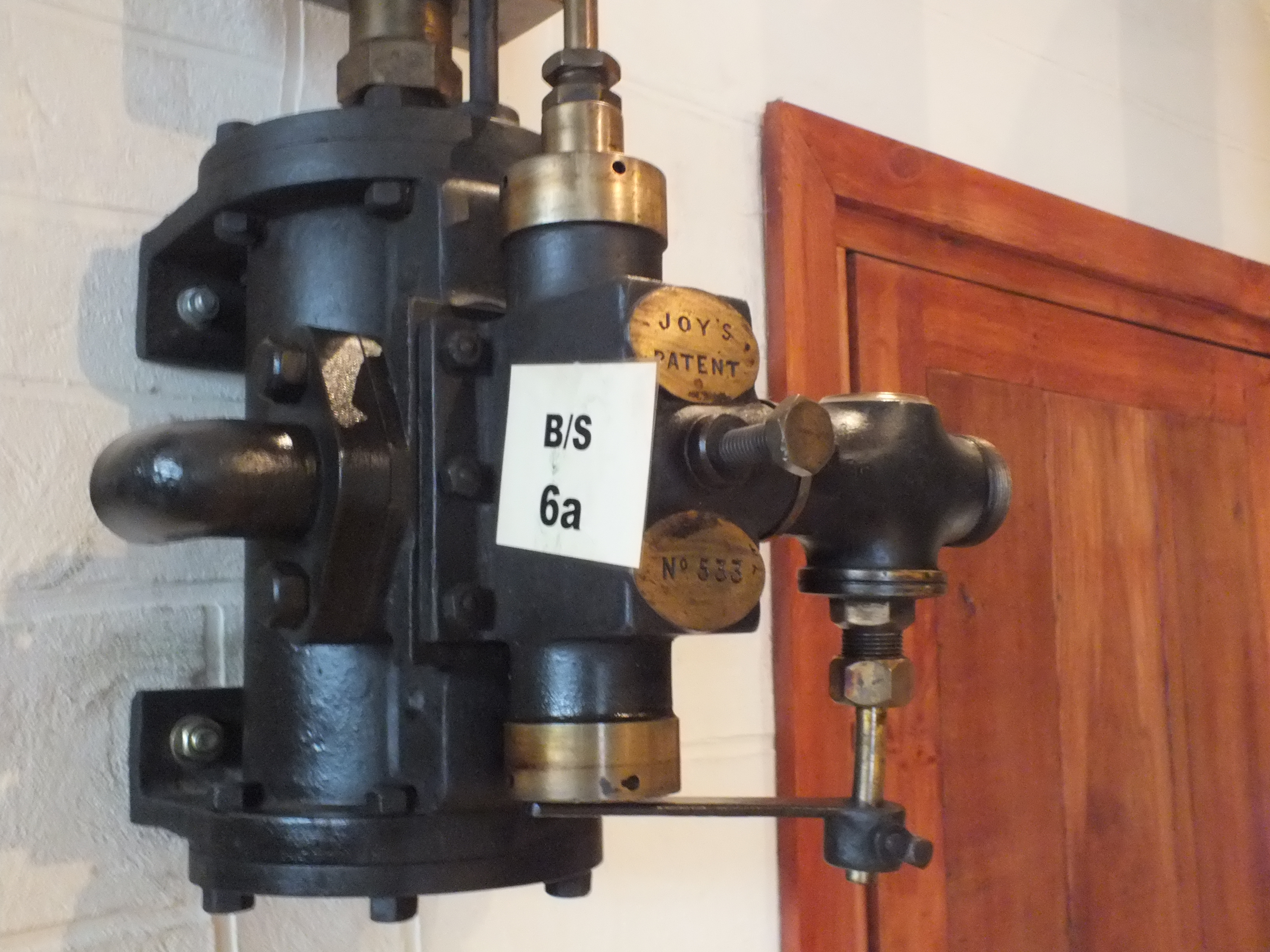 The Anson Engine Museum in Poynton, Cheshire collection. David Joy, the railway engineer, pioneered the use of water engines for powering organ bellows. He also designed the Jenny Lind locomotive and later went on to invent Joy's valve-gear for steam engines